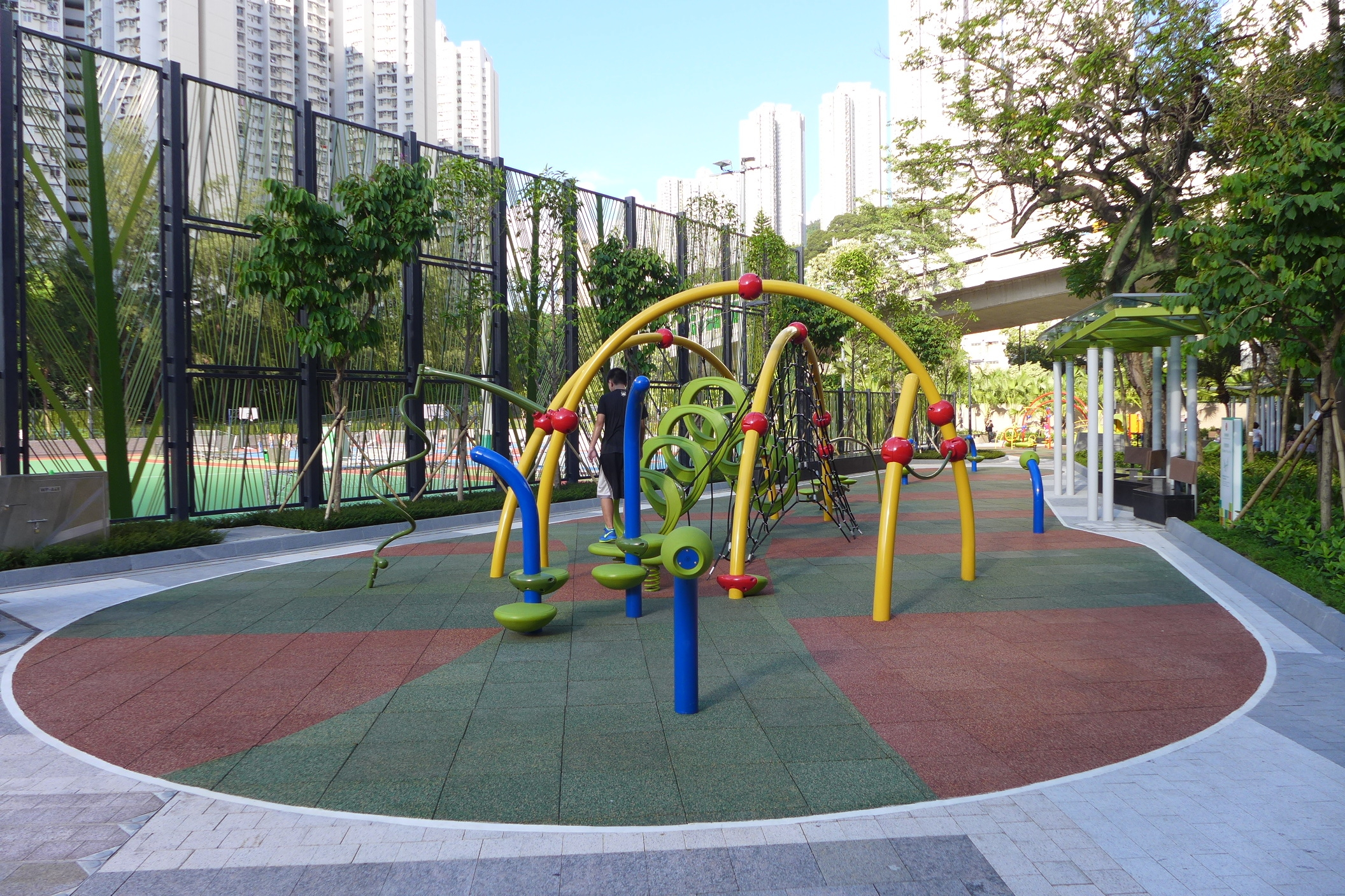 Kwun Tong Recreation Ground Playground